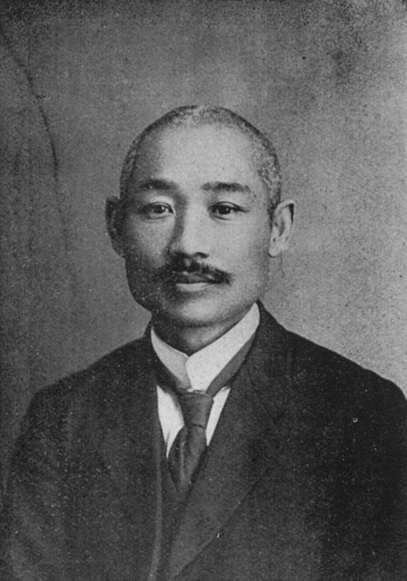 Mr. Takeji Kinoshita.